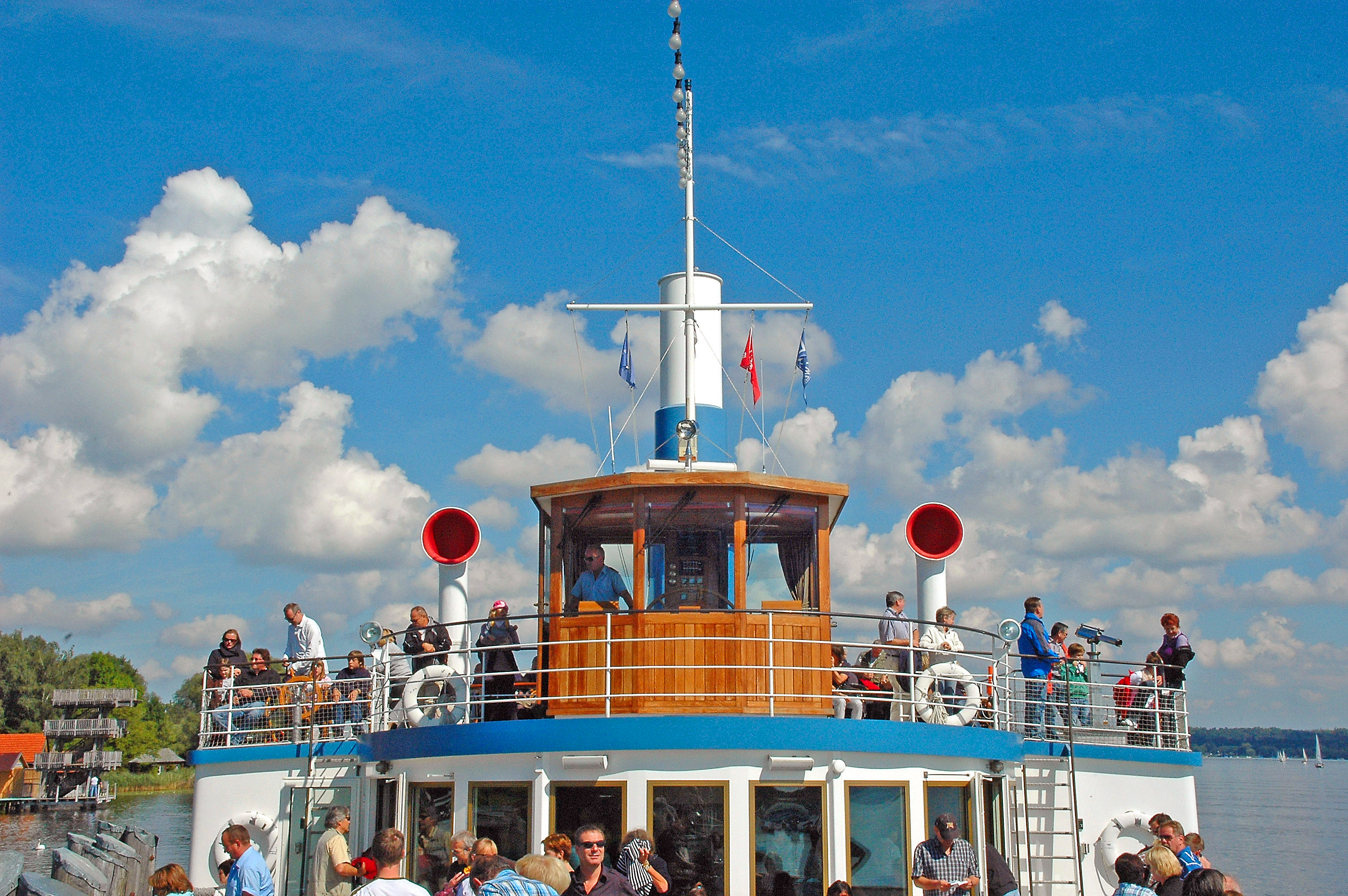 Control bridge of the MS Diessen (Ammersee)